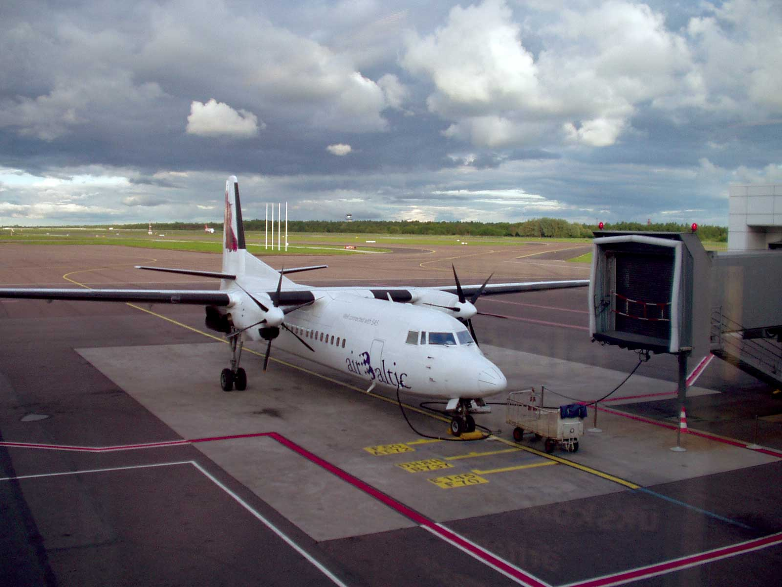 Fokker F50 of AirBaltic at Tallinn Airport